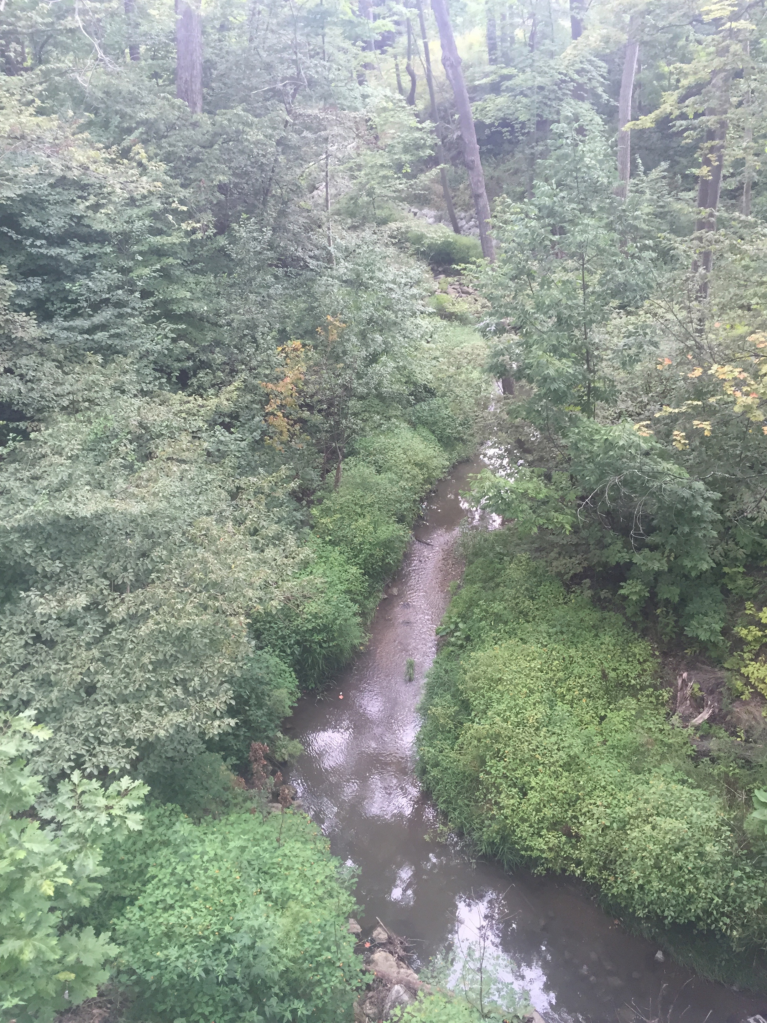 This is a picture of a small ravine viewed from a bridge. Nothing special.